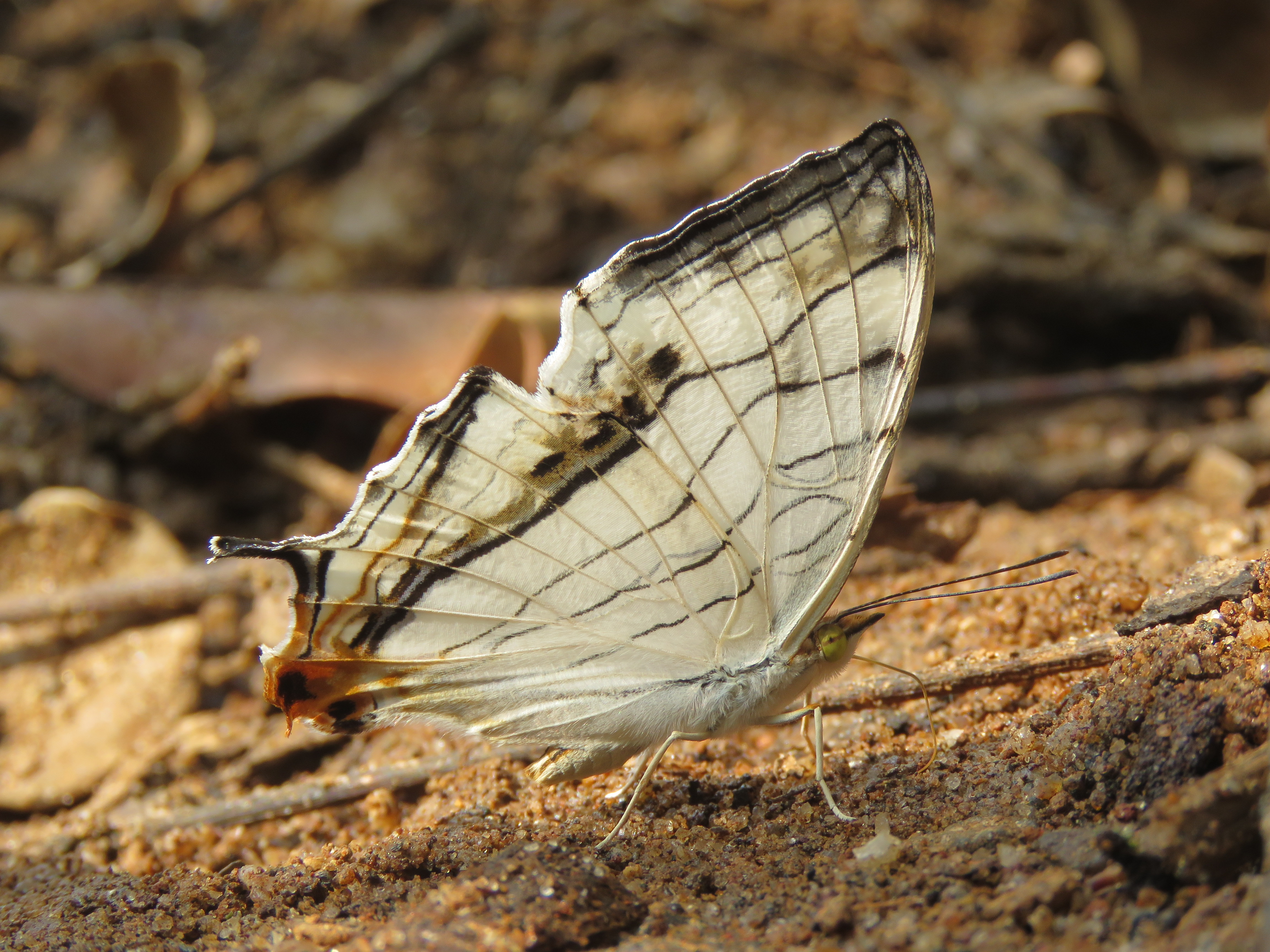 Photos of Common map, Map butterfly by Vinayaraj 2018